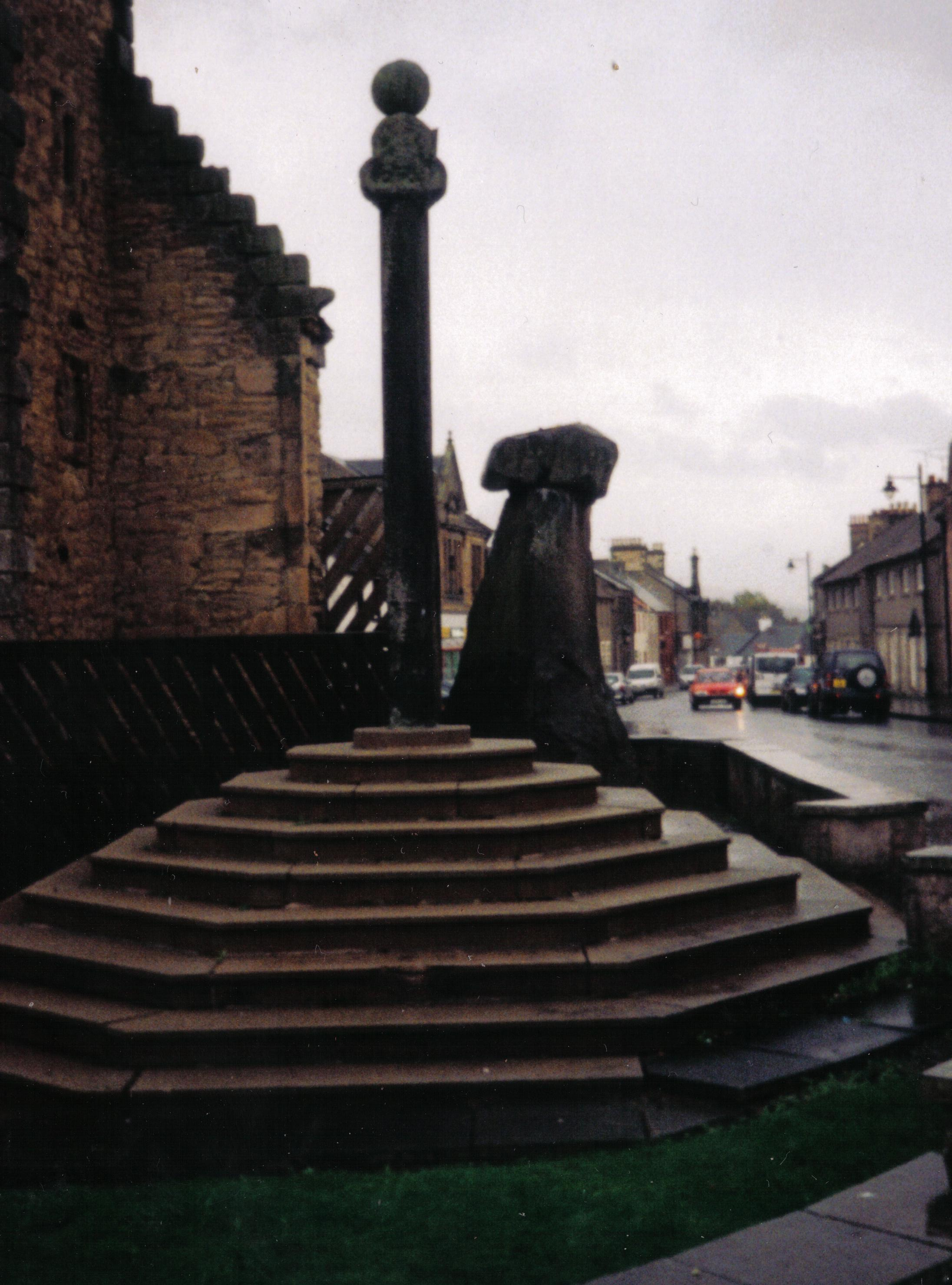 The Mercat cross and Stone of Manau at Clackmannan Tolbooth, Scotland. 2005.